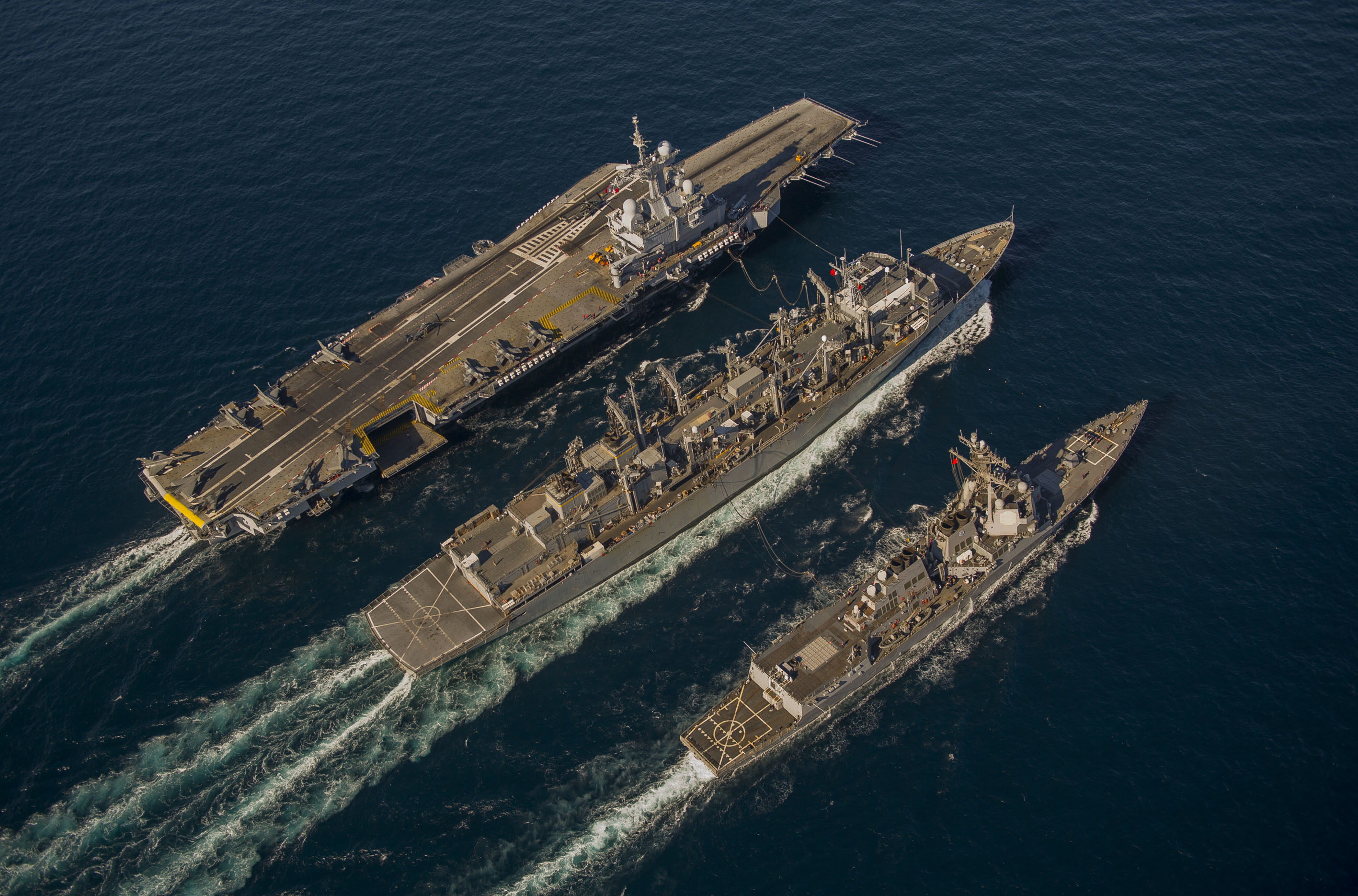 131229-N-ZZ999-378 The French navy aircraft carrier Charles de Gaulle (R 91), left, and the guided-missile destroyer USS Bulkeley (DDG 84), right, conduct an underway replenishment with the Military Sealift Command fleet replenishment oiler USNS Arctic (T-AOE 8) in the Gulf of Oman, Dec. 29. Charles de Gaulle is conducting operations with the Harry S. Truman Carrier Strike Group supporting maritime security operations and theater security cooperation efforts in the U.S. 5th Fleet area of responsibility. (U.S. Navy photo courtesy of the French navy by Frederic Duplouich/Released)